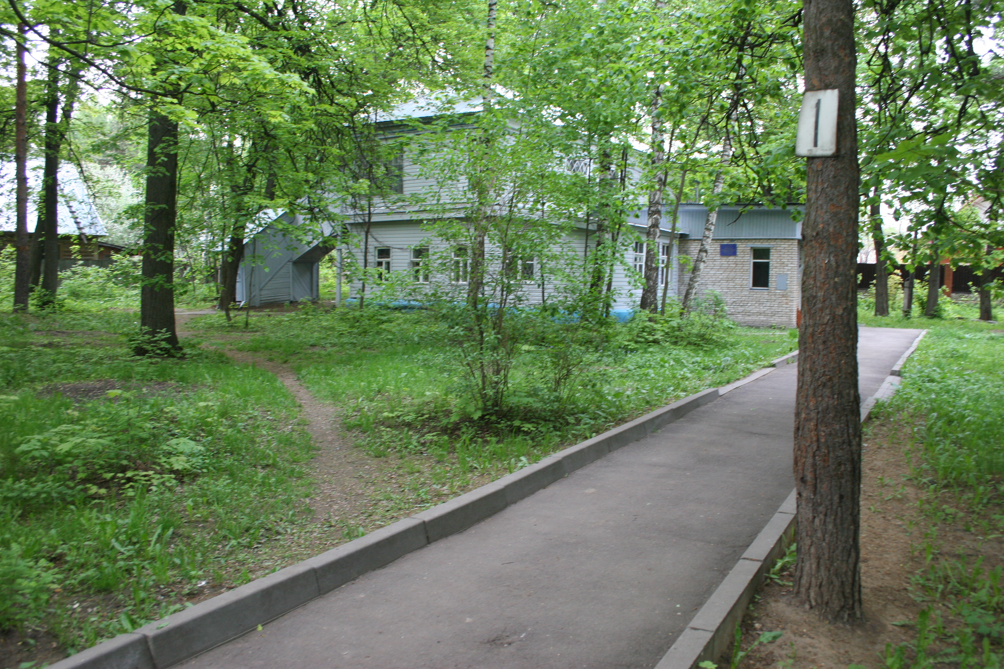 Music school no. 5 in Tomilino. The Hymn of Tomilino was composed and recorded there. Located 1 Turgenev street, Tomilino